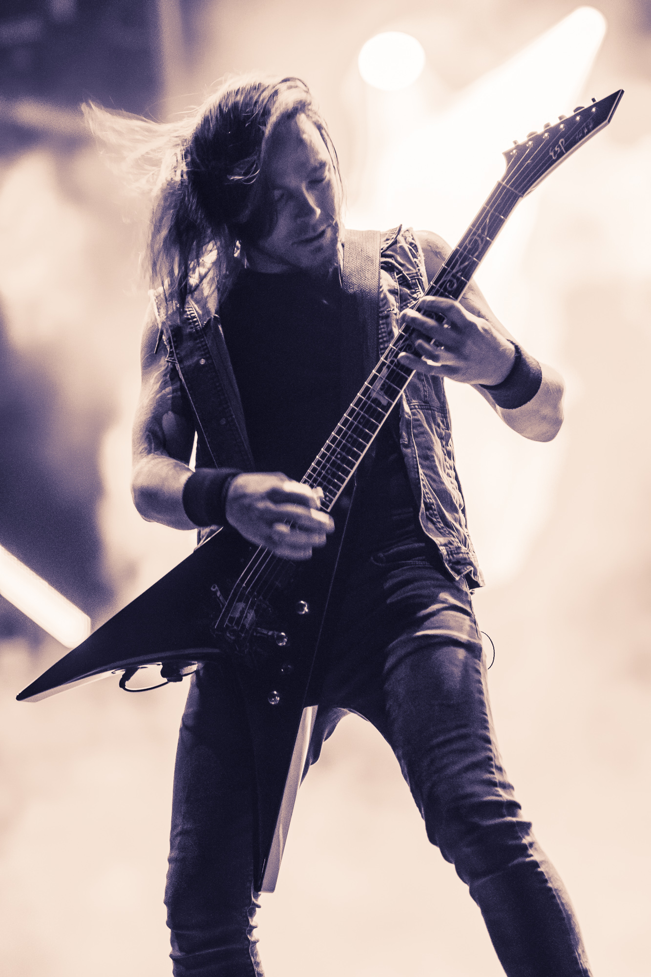 Michael "Padge" Paget, guitarist of Bullet for My Valentine band. Ursynalia 2013 Warsaw Student Festival, Poland. This photo was taken with Sony SLT-A77 camera, thanks to cooperation with Sony Poland.You can see all photographs in category Taken with Sony SLT-A77. English | polski | +/−